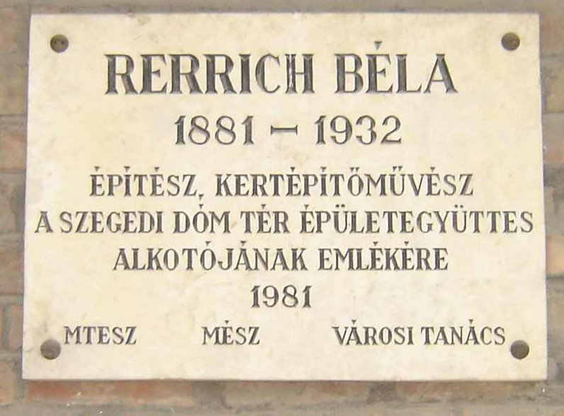 Béla Rerrich commemorative plaque in Szeged, Rerrich Béla Square.